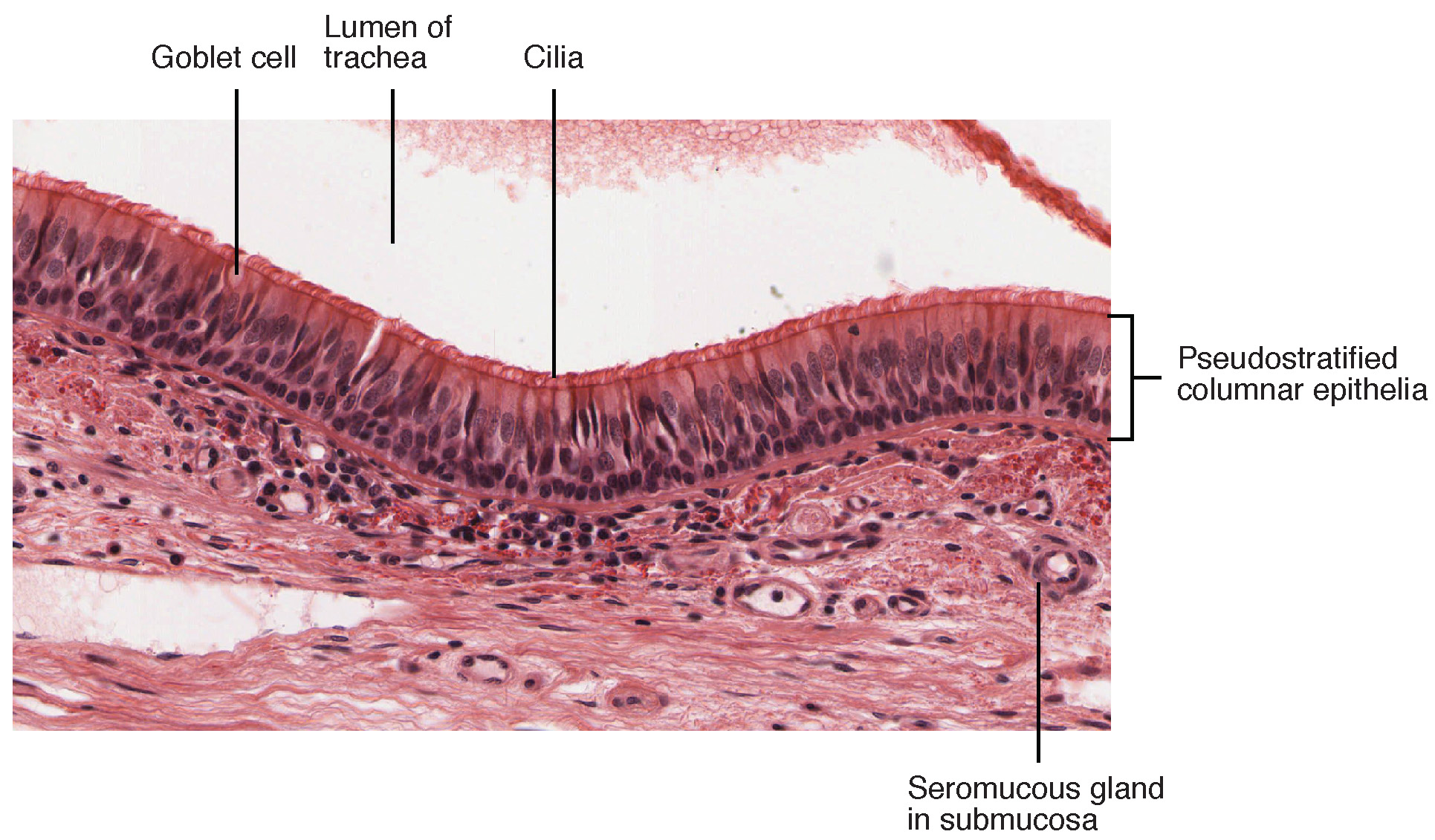 Illustration from Anatomy & Physiology, Connexions Web site. Jun 19, 2013.